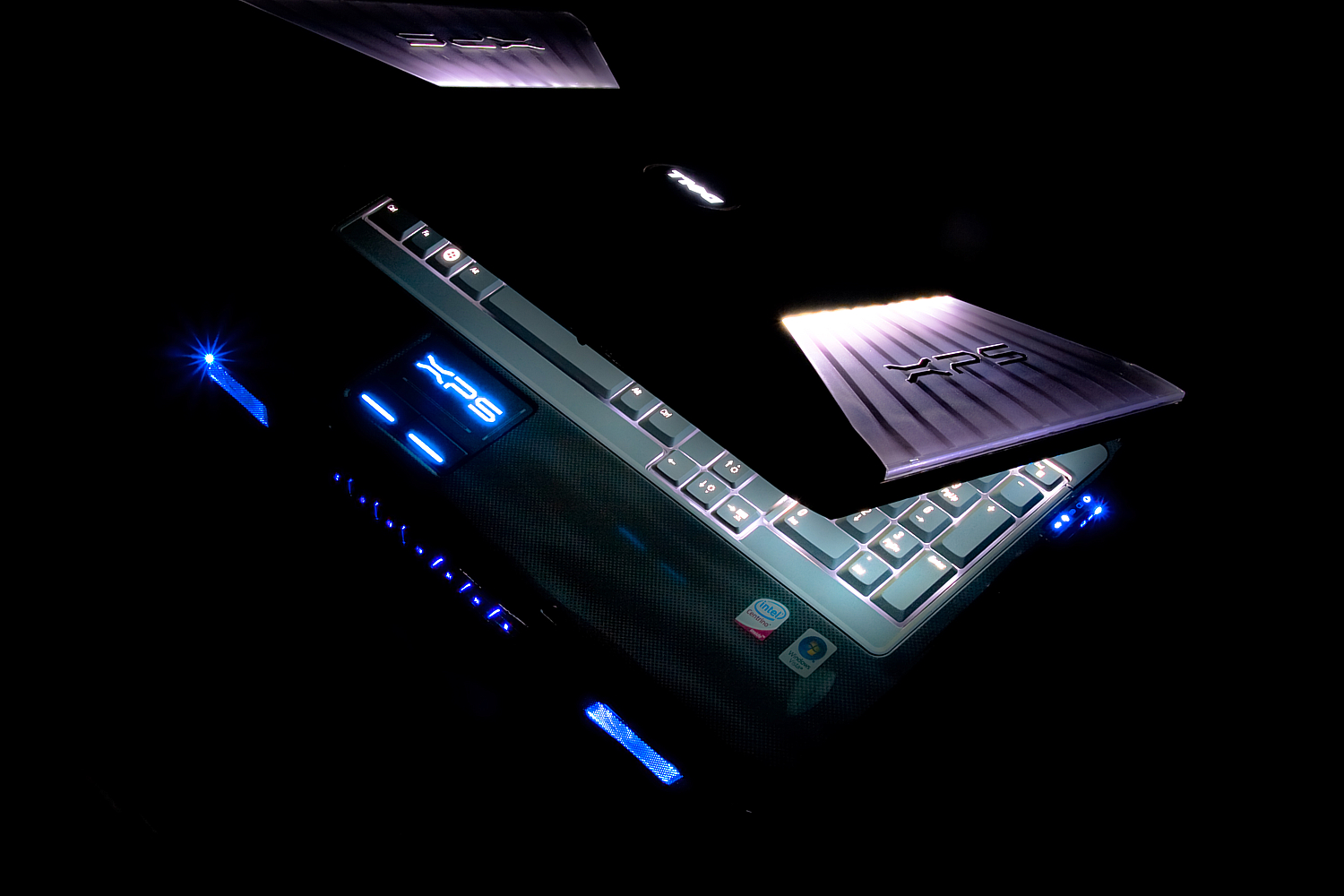 Dell XPS M1730 in all its glory!